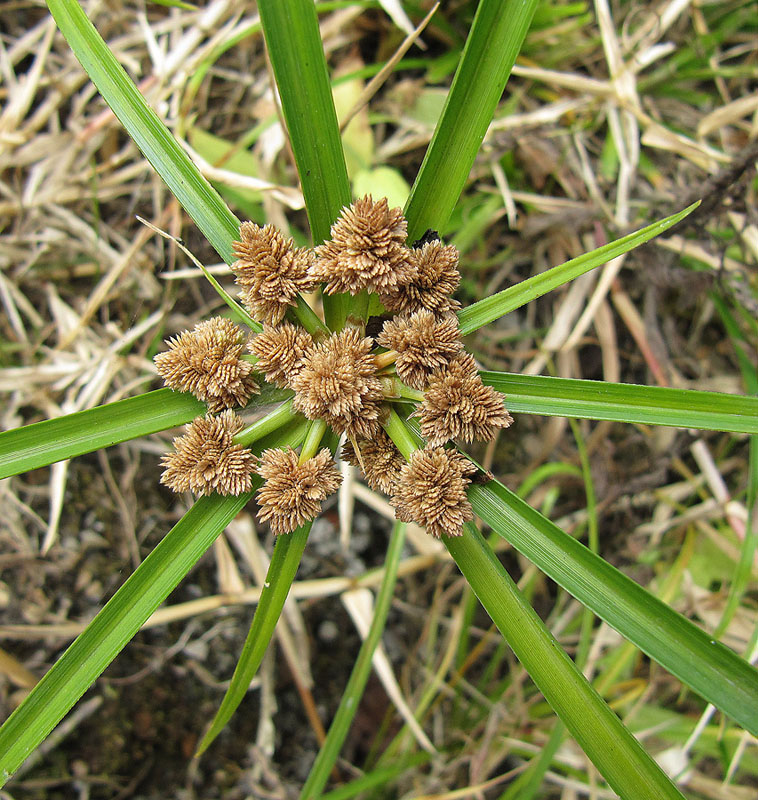 A widespread species known as Navajola in Latin America. Photo from the Toro Valley, central Costa Rica. In context at